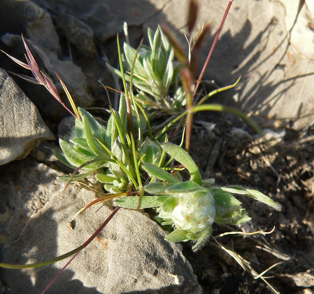 Stylocline micropoides in the State Line Hills, 1 km northwest of Primm, Nevada (although this photo does not unambiguously depict key characters, the species is the only Stylocline recorded in this part of the Spring Mountains)